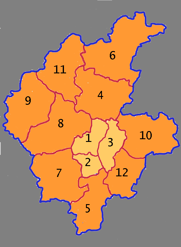 Municipalities of Linyi city in Shandong province, China